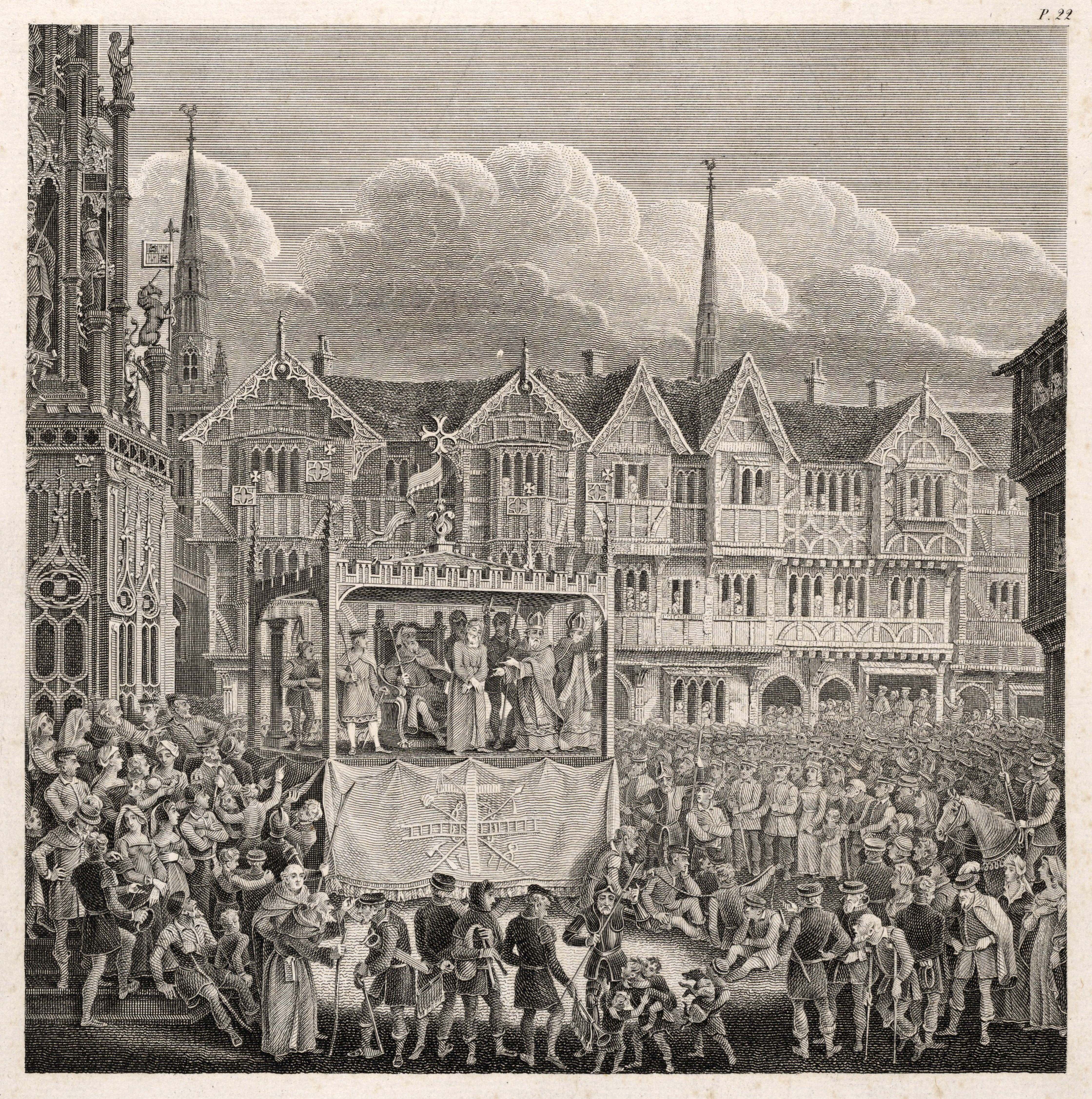 This elaborate image, Representation of a Pageant Vehicle at the time of Performance, was commissioned as the frontispiece to A Dissertation on the Pageants or Dramatic Mysteries Anciently Performed at Coventry by the Trading Companies of that City, (1825) by Thomas Sharp, (1770-1841). The image was designed and executed in copper engraving by David Gee (1793-1872). It recreates a 15th-century Passion play (The Trial and Crucifixion of Christ) by the Smiths' Company of Coventry. Many of the details are based on written accounts, including pageant wagon design itself and the people in the street. The audience includes men, women, and children, along with armed guards for the wagon, men who drew the wagon from station to station, minstrels, clerics and a carpenter. The scene on stage depicts Christ, with hands bound, before an enthroned Pilate. Annas and Caiaphas are shown in mitred hats, and a boy carries a bowl of water for Pilate to wash his hands. Although somewhat speculative, the image has been influential and is often reproduced.